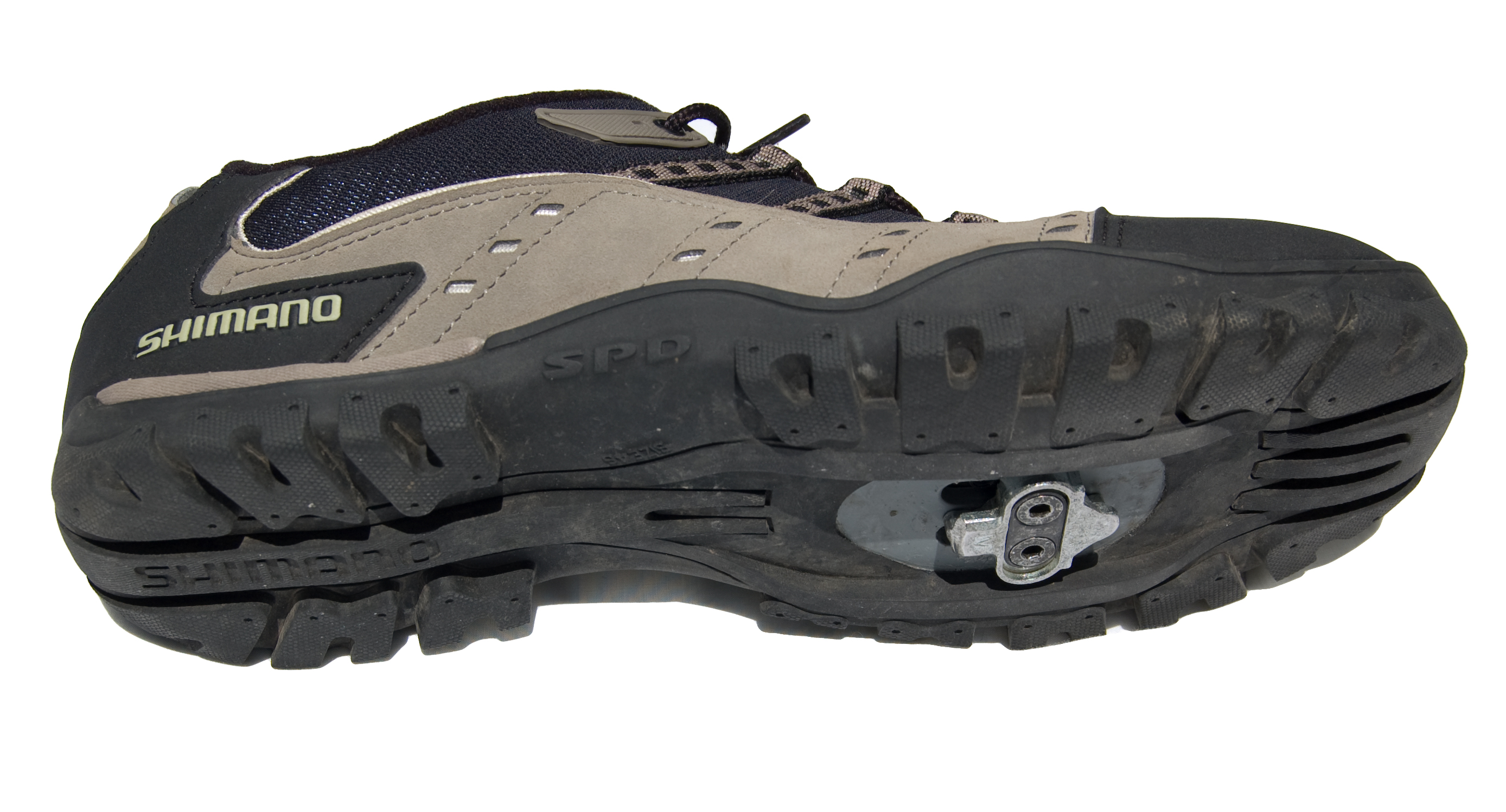 A Shimano MT31 cycling shoe with a SH56 SPD cleat attached. The MT31 is an entry-level shoe, with a versatile tread designed for walking on a variety of surfaces.